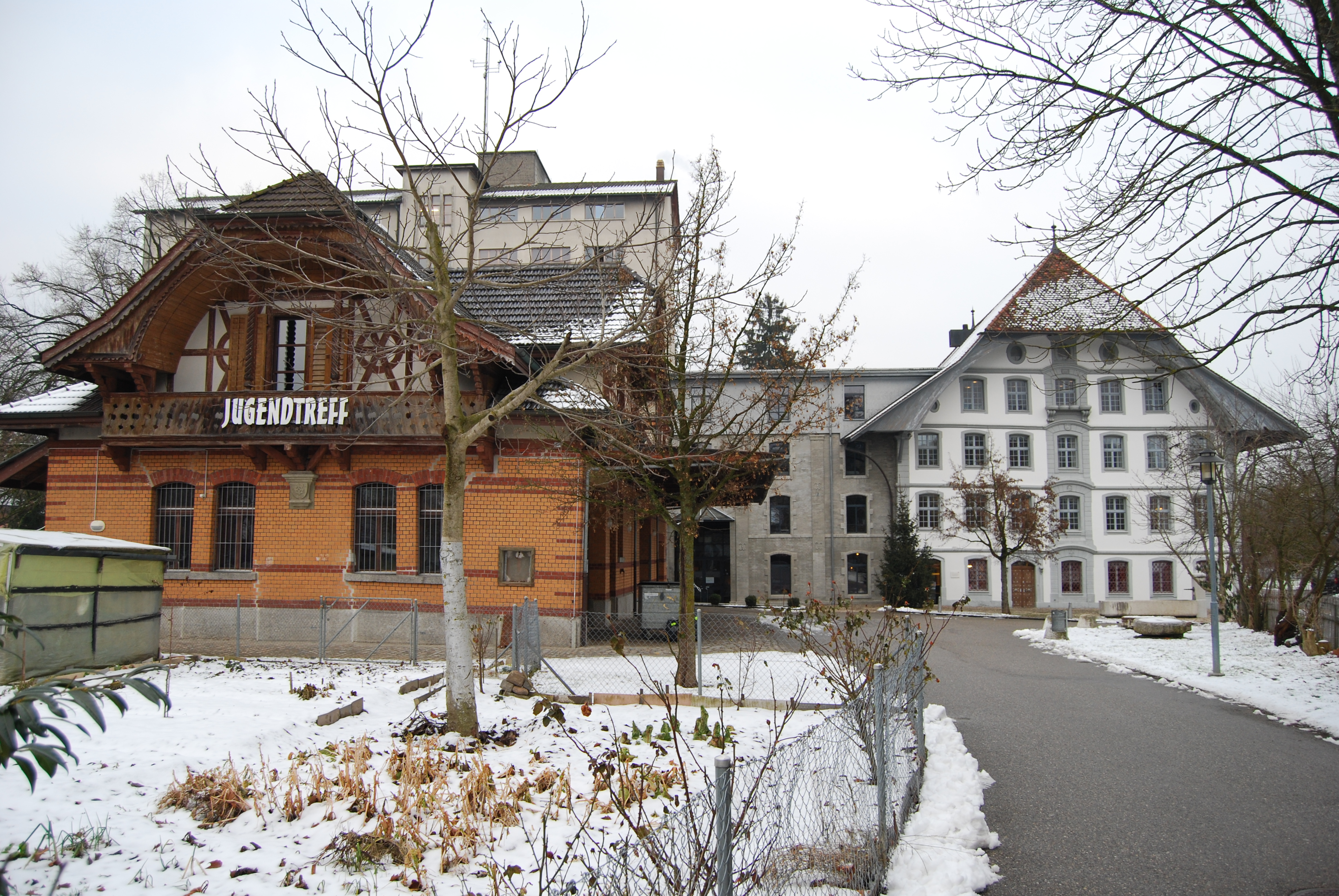 House of youth culture Neon and culture center Alte Mühle at Langenthal, canton of Bern, SwitzerlandEsperanto: Junularcentro kaj kulturcentro Alt Mühle (Malnova Muelejo) en Langenthal, Kantono Berno, Svislando